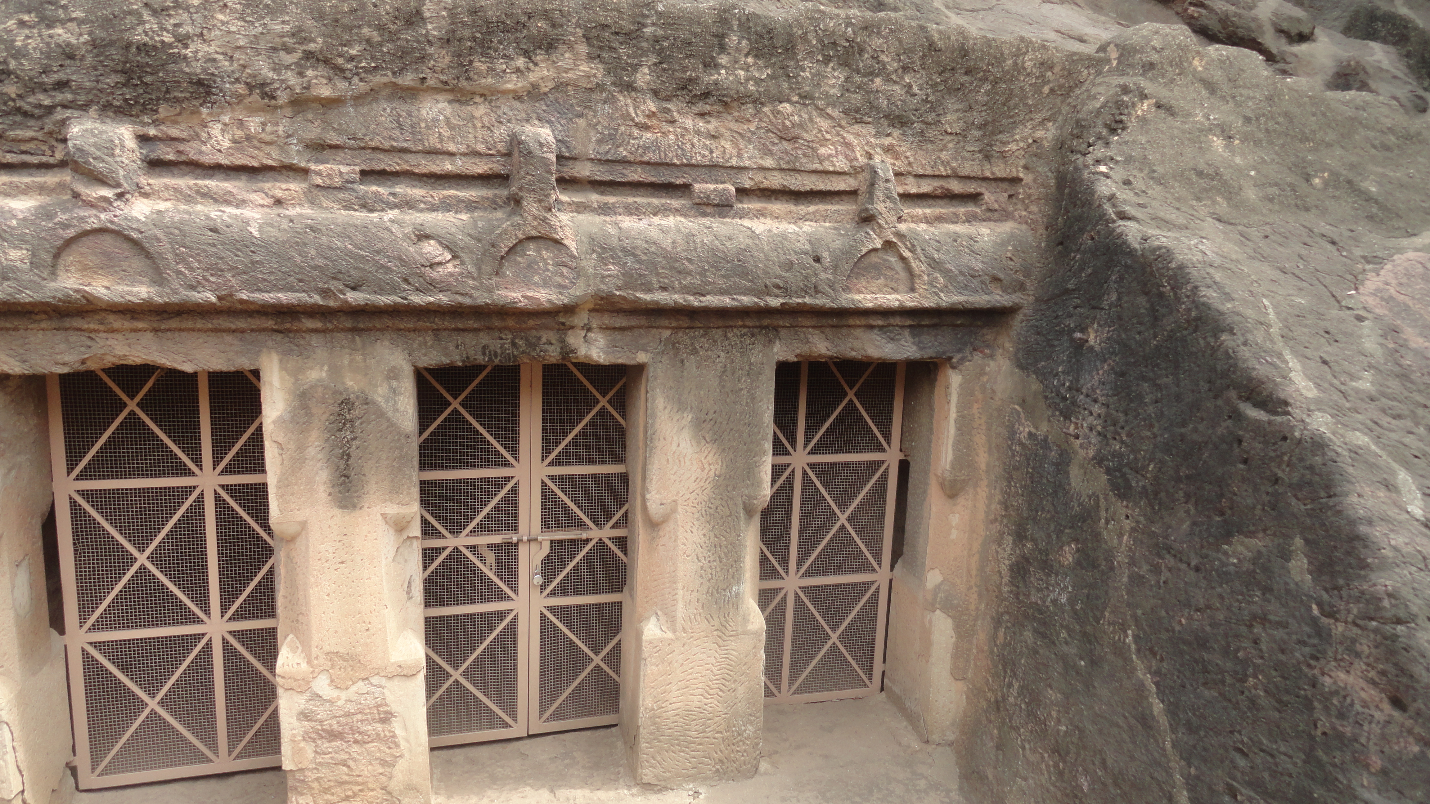 Mogalraja puram caves. vijayawada